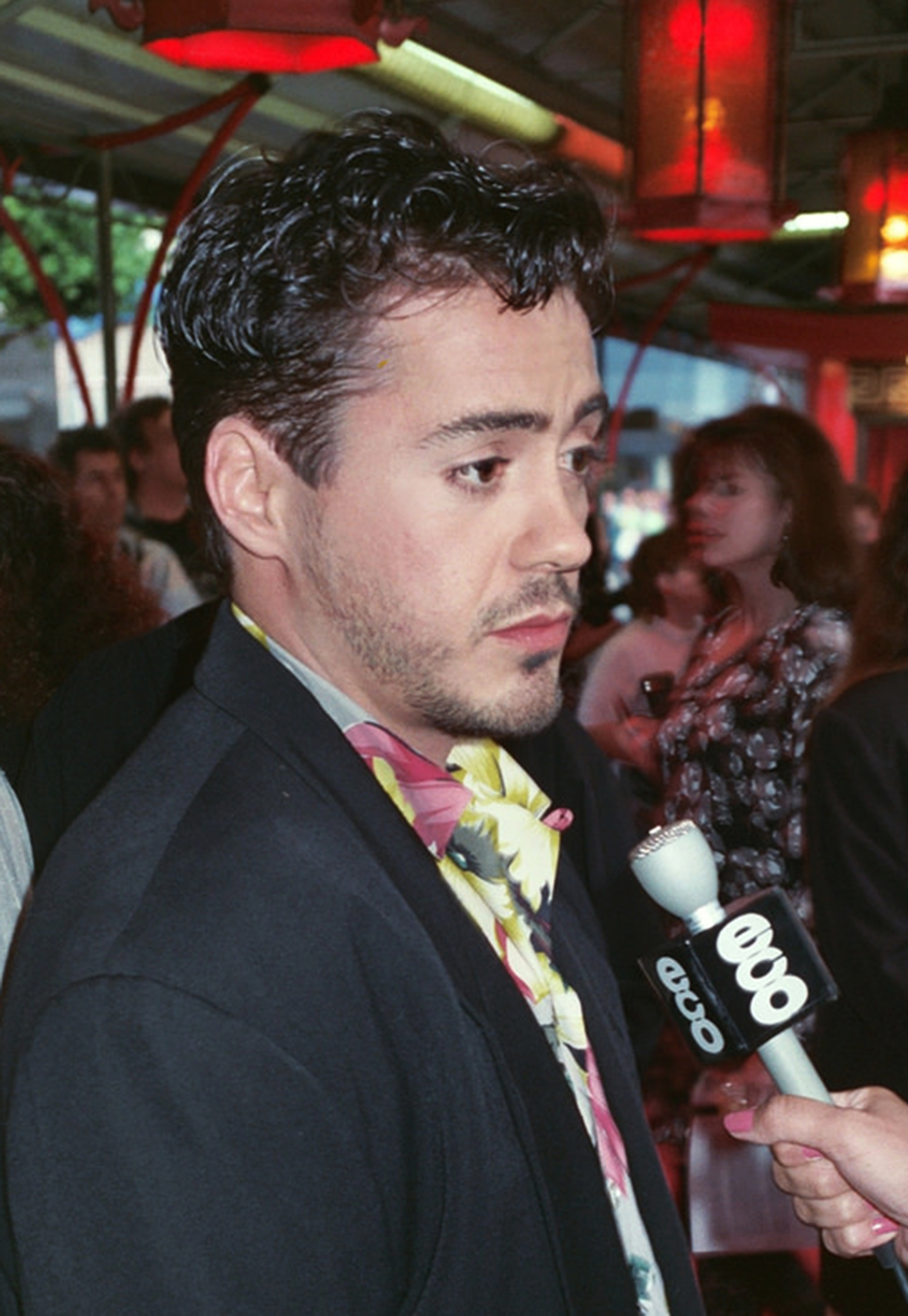 Robert Downey, Jr., taken at the AIR AMERICA movie premiere 1990